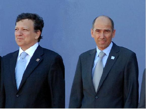 Barroso and Jansa, 2007